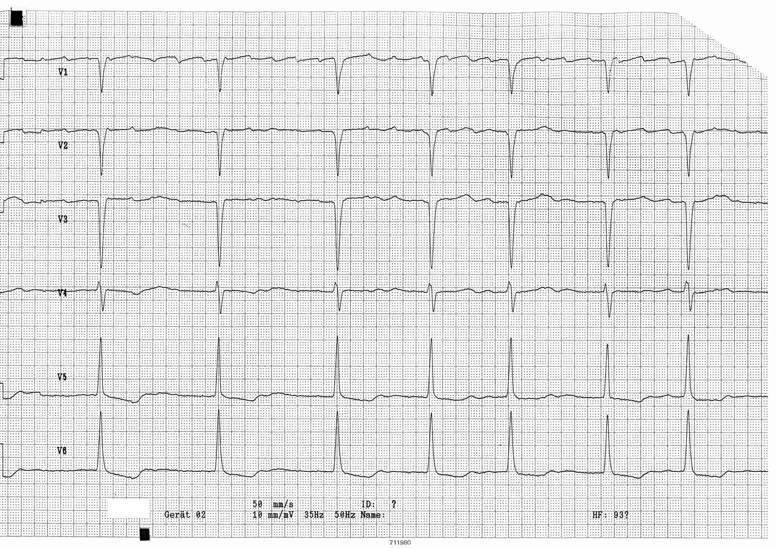 ECG ECG of a 84 year old woman with known aortic and mitral valve insufficience, no chest pain, but coming into hospital with hypotonic disorder. ECG: atrial flutter (not prescribed), left hypertrophy, ST-depression.